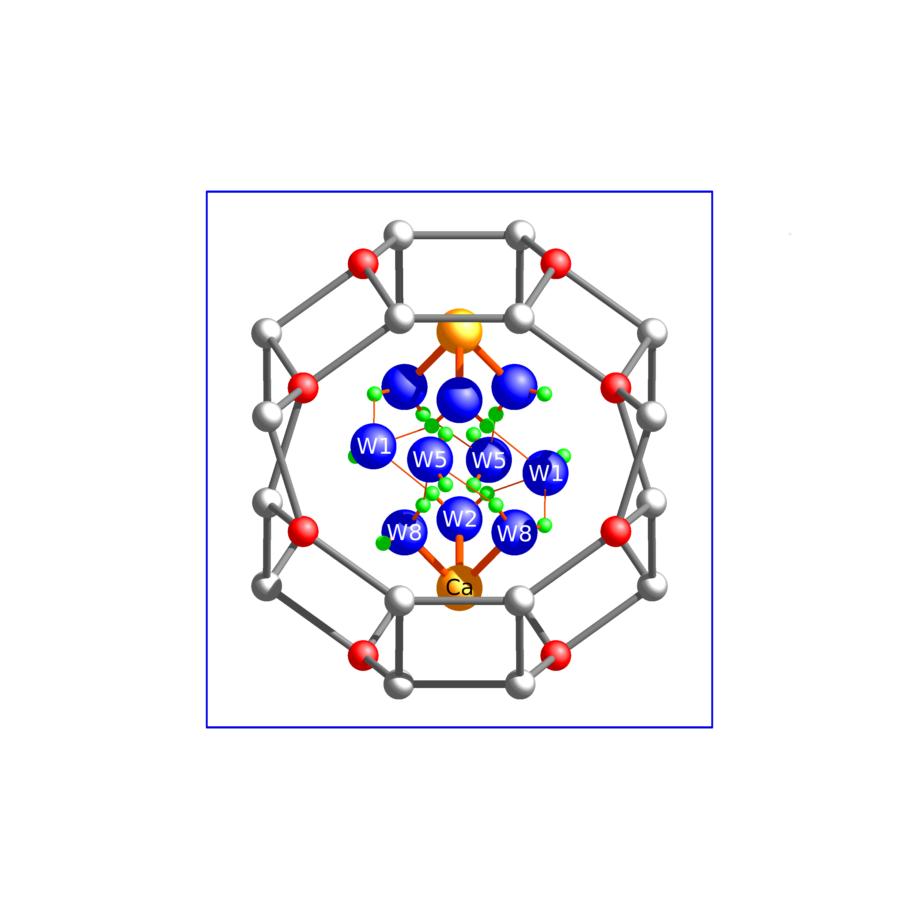 Laumontite structure viewed down the c-axis into the cavern of the alumosilicate framework Data from Kenny Stahl, Gilberto Artioli, 1993: A neutron powder diffraction study of fully deuterated laumontite. European Journal of Mineralogy 5/5, pp 851–856; Calculation of rendering input data Larry W. Finger, Martin Kroeker, and Brian H. Toby, DRAWxtl, an open-source computer program to produce crystal-structure drawings, J. Applied Crystallography V40, pp. 188-192, 2007 Rendering POVRAY